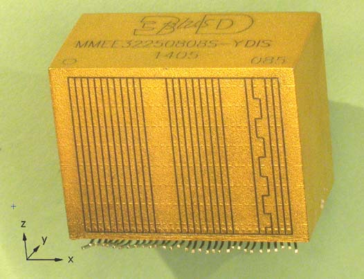 3D IC